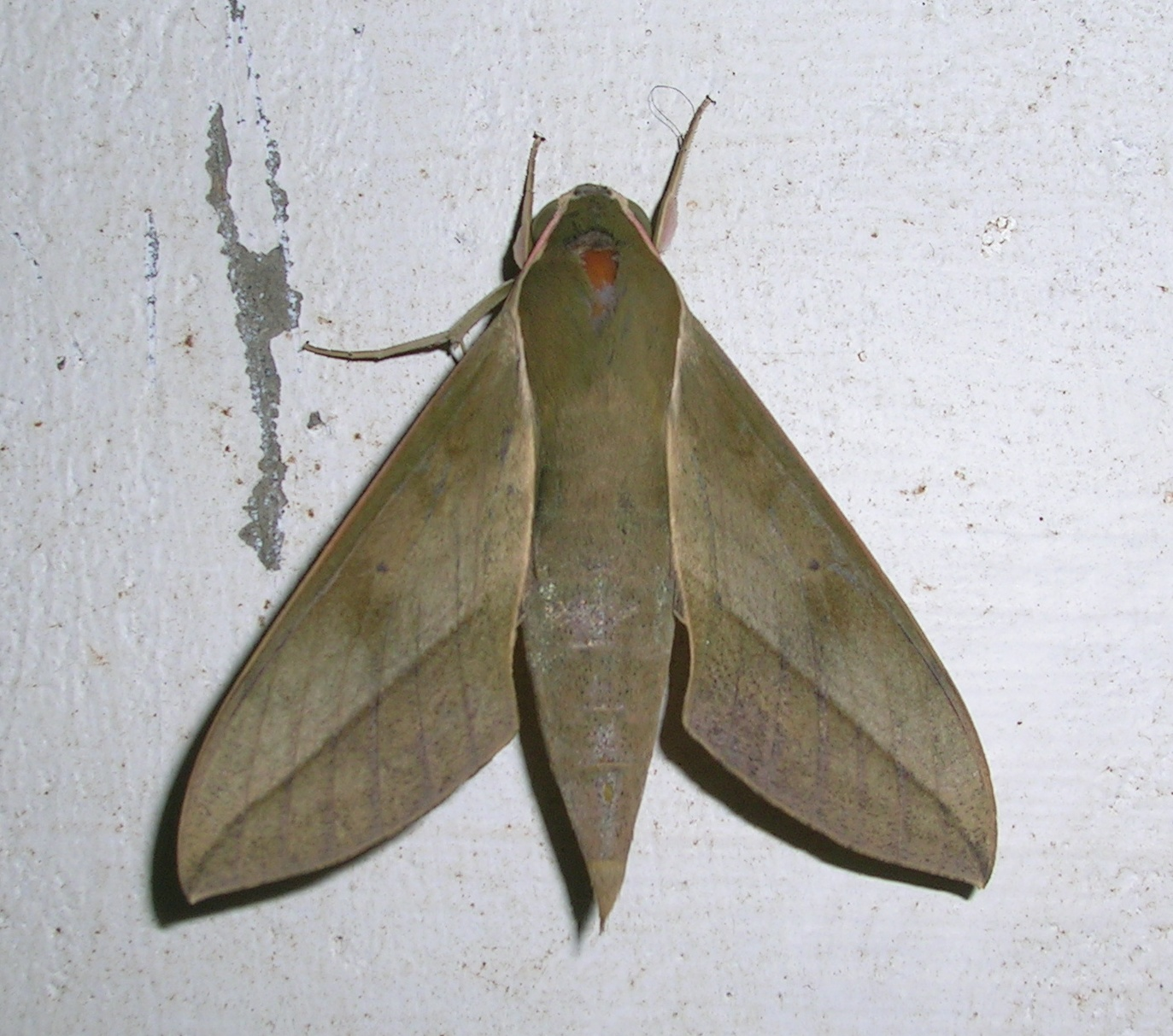 Theretra clotho, Sphingidae. From North Wayanad, Kerala, India (ID determination courtesy of Ian Kitching, NHM, London)